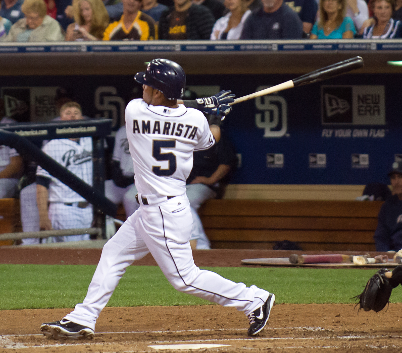 Alexi Amarista major league baseball player for the San Diego Padres Sept. 11 2012 at Petco Park in San Diego California